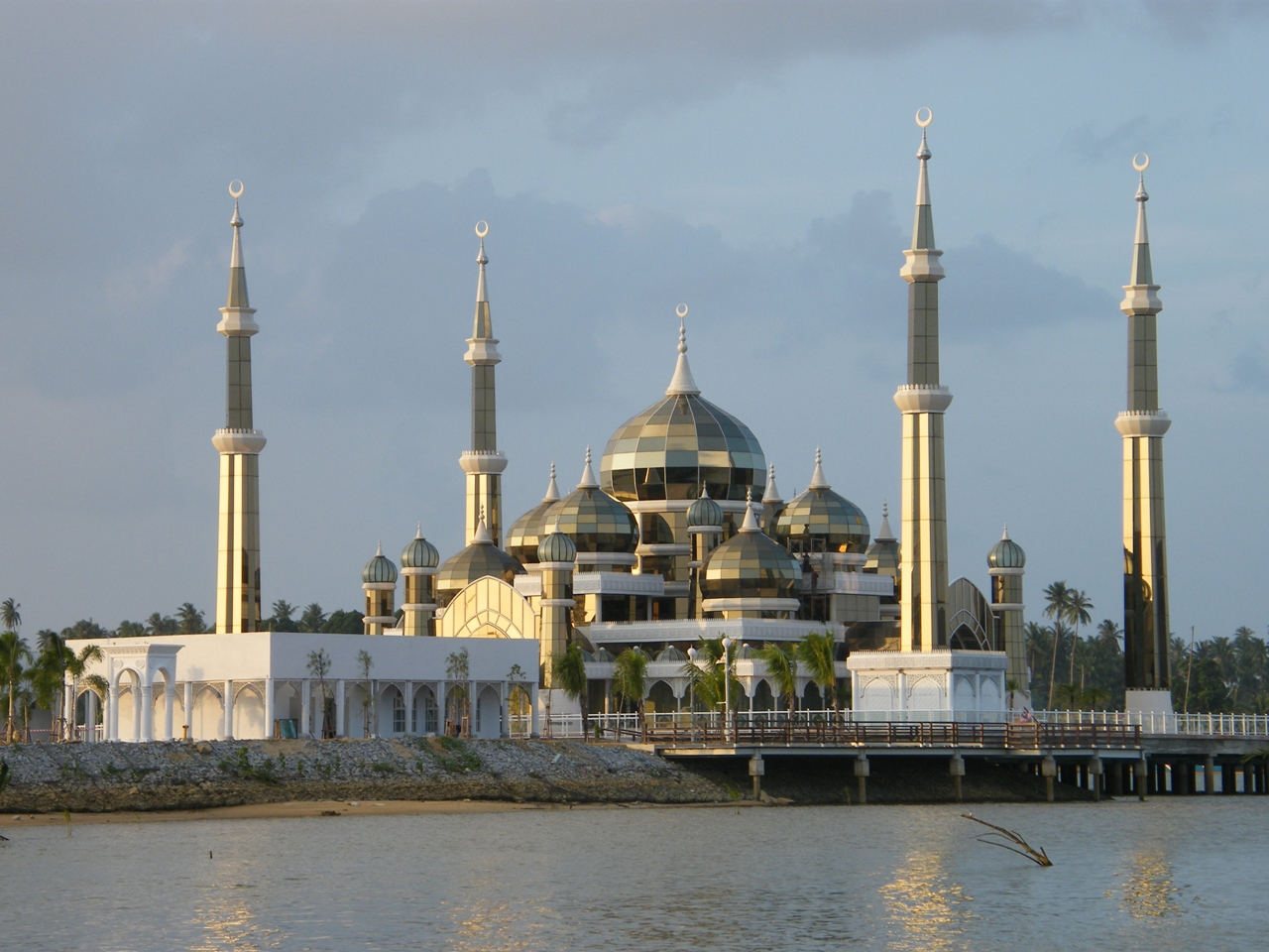 Cristal Mosque in Kuala Terengganu